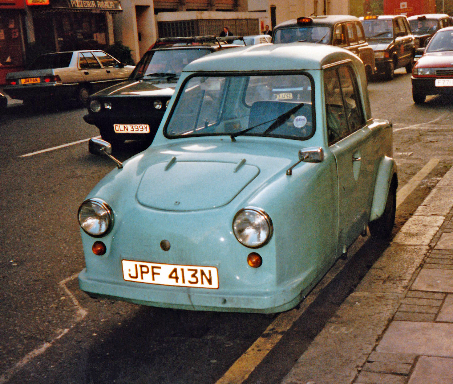 A circa 1974 AC Invacar in London. These invalid carriages all belonged to the government and most were scrapped in 2003, when they were made ineligible for use on the streets. Shame on me for not photographing the passing Metrocab, nor the Proton Saloon parked on the other side of the street. My excuse is that film was expensive and it was either photos or food...